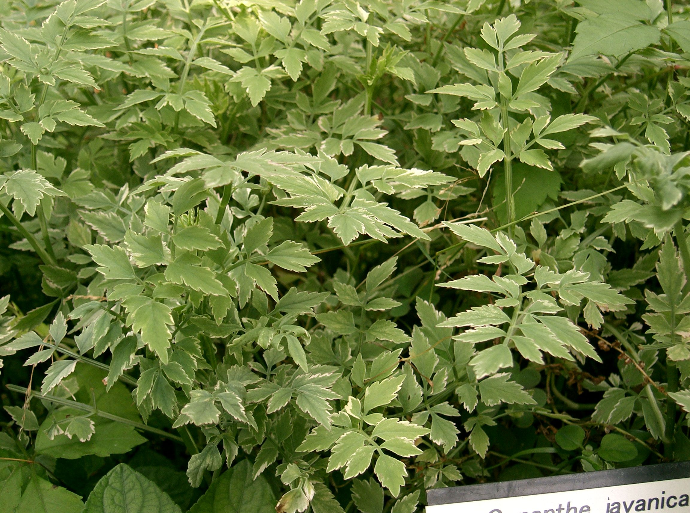 Scientific name Oenanthe javanica